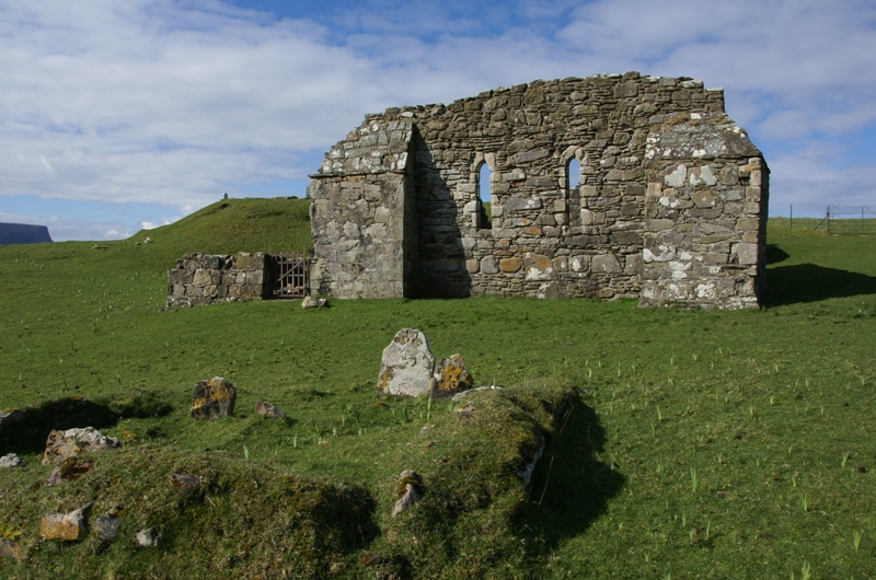 Inchkenneth Chapel, Inch Kenneth, Argyll and Bute, Scotland. View from east.